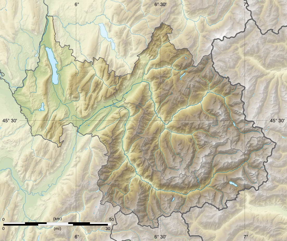 Blank physical map of the department of Savoie, France, for geo-location purpose.Scale : 1:800,000 (precision : 200 m)